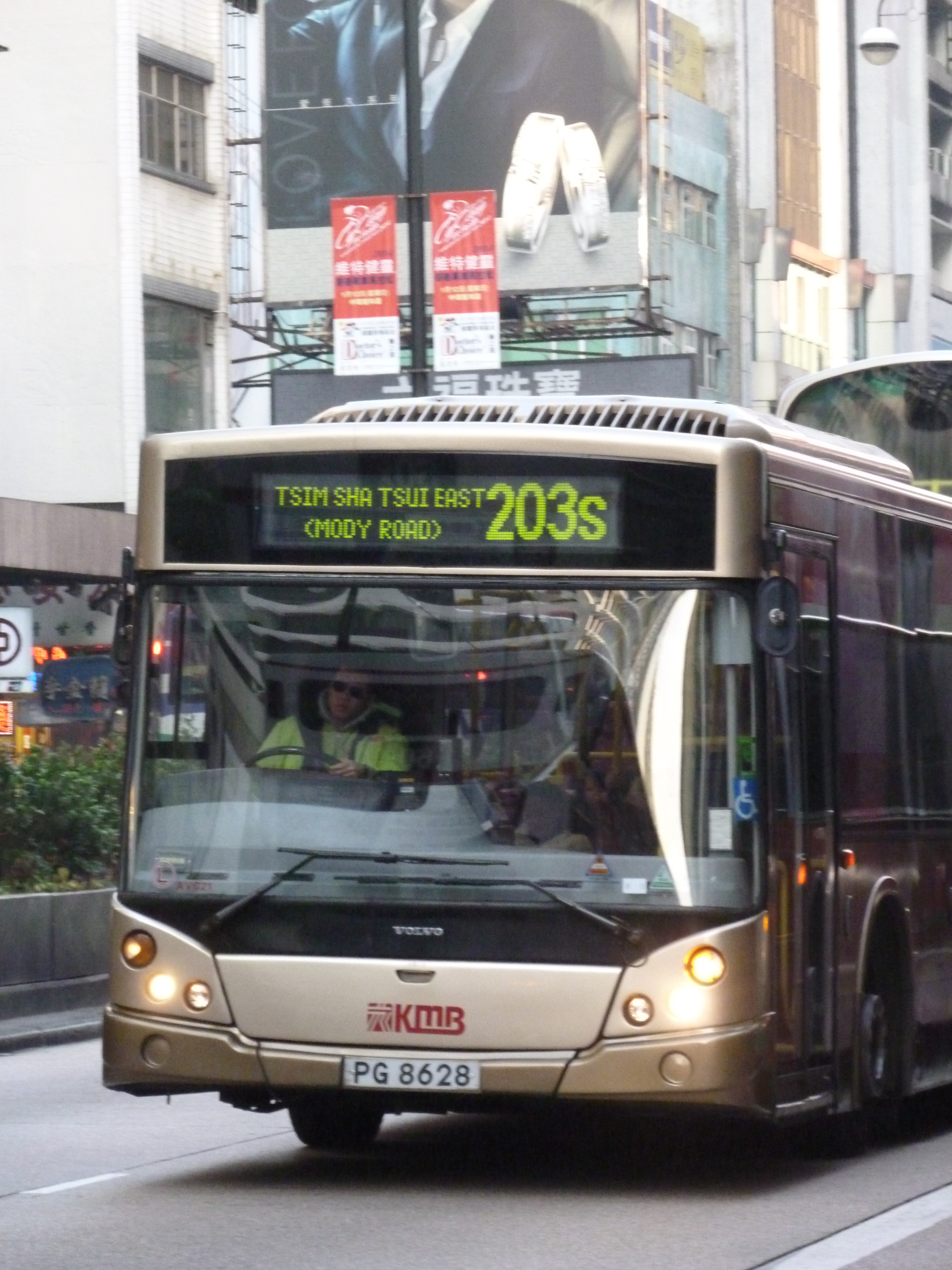 KMB Route 203S (Nathan Road, Mong Kok)中文（香港）: 九巴203S線（旺角彌敦道）